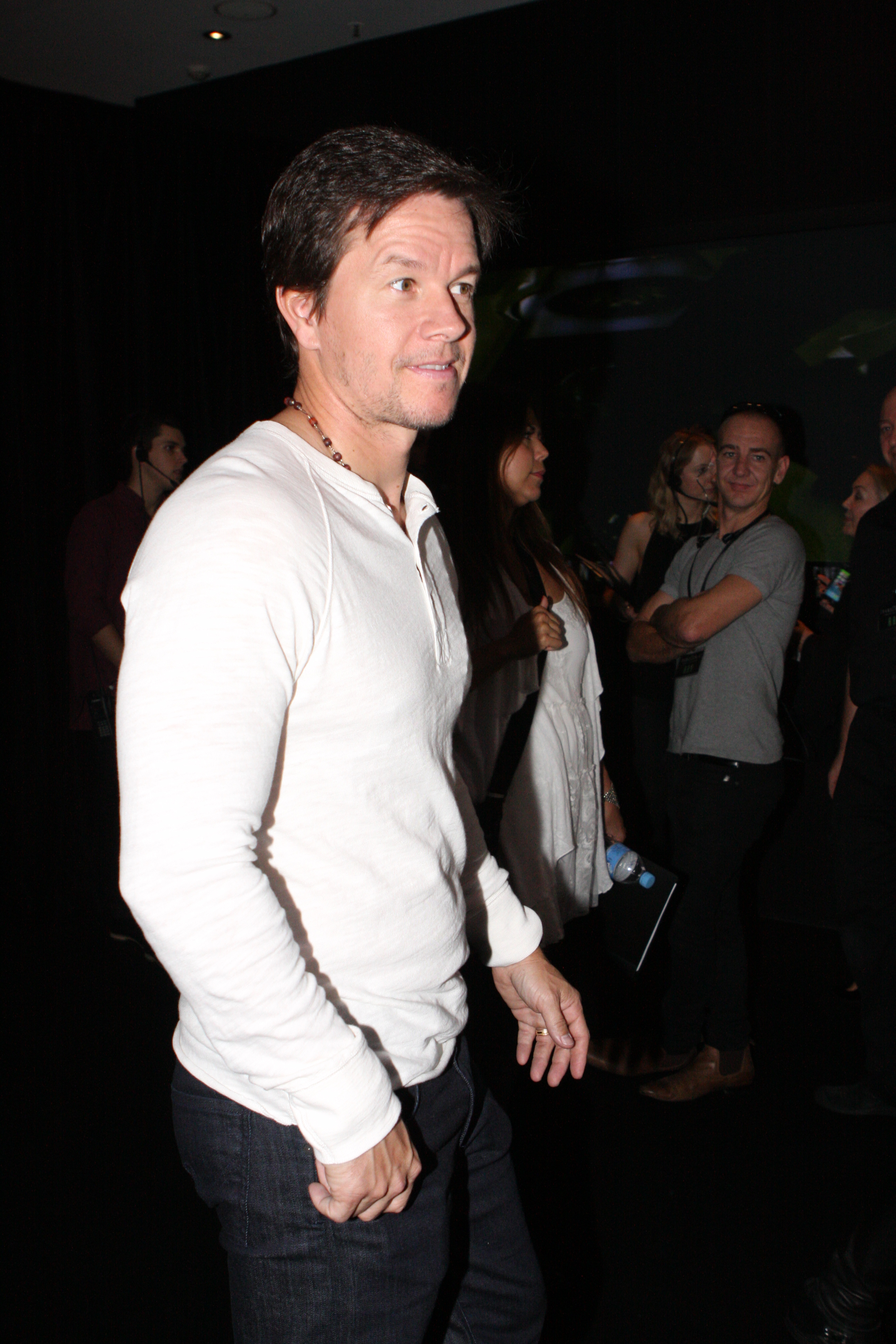 Transformers: Age of Extinction Sydney premiere